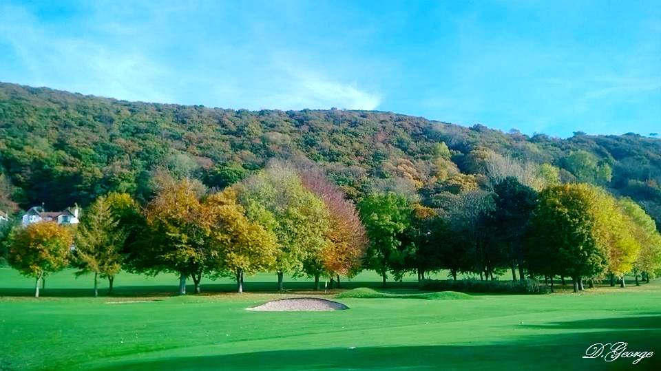 Colourful Golf Course